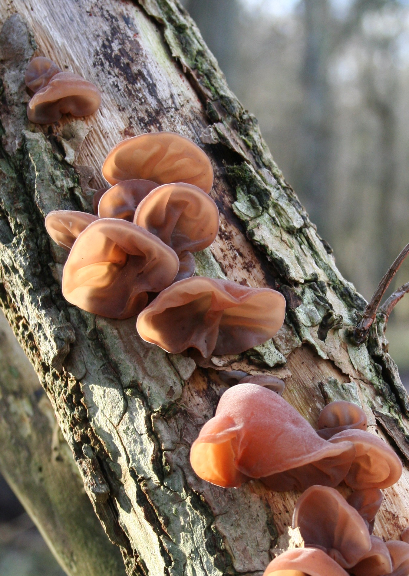 Auricularia auricula-judae 10 december 2006, the Netherlands